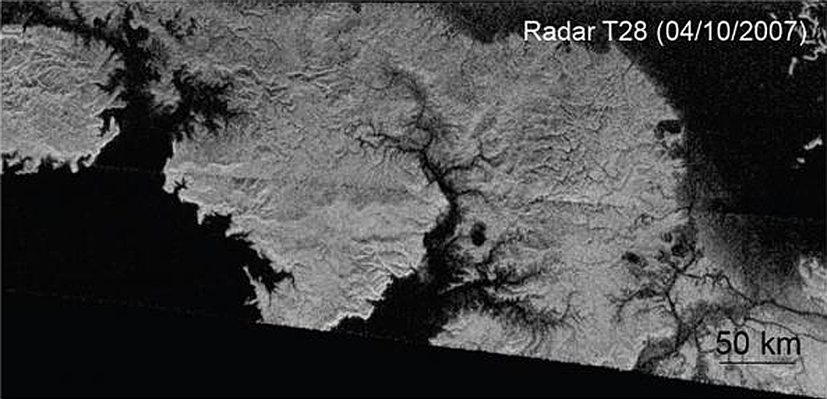 Radar image of fluvial valleys in the north polar region of Saturn's moon Titan at about 78°N, 280°W. Kraken Mare is at lower left, and Ligeia Mare is at upper right. The original NASA image has been modified by cropping the margins, doubling the linear pixel density and sharpening.